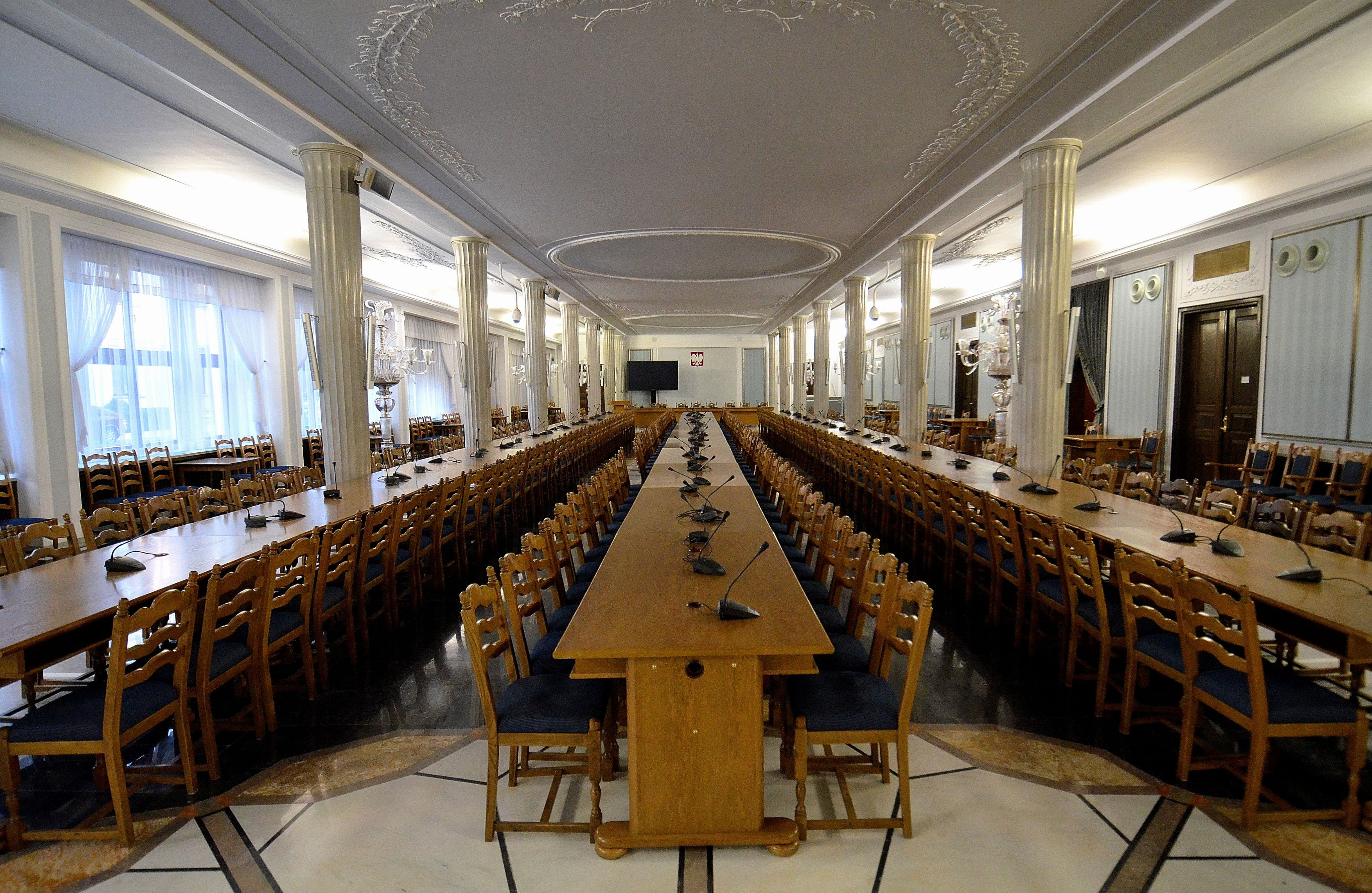 The Column Hall in the Sejm